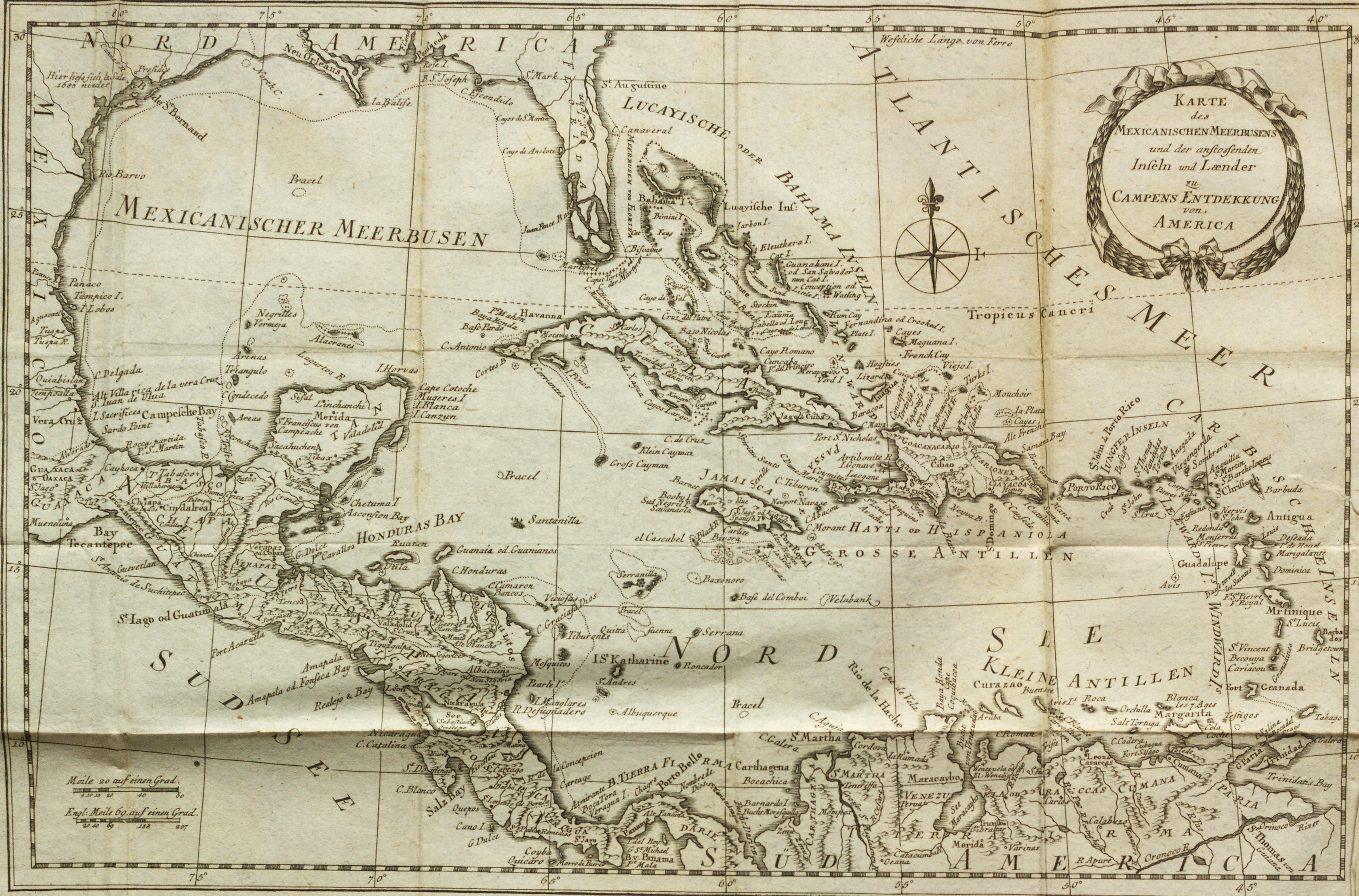 From Joachim Heinrich Campe: Kolumbus oder die Entdekkung von Westindien (1782)